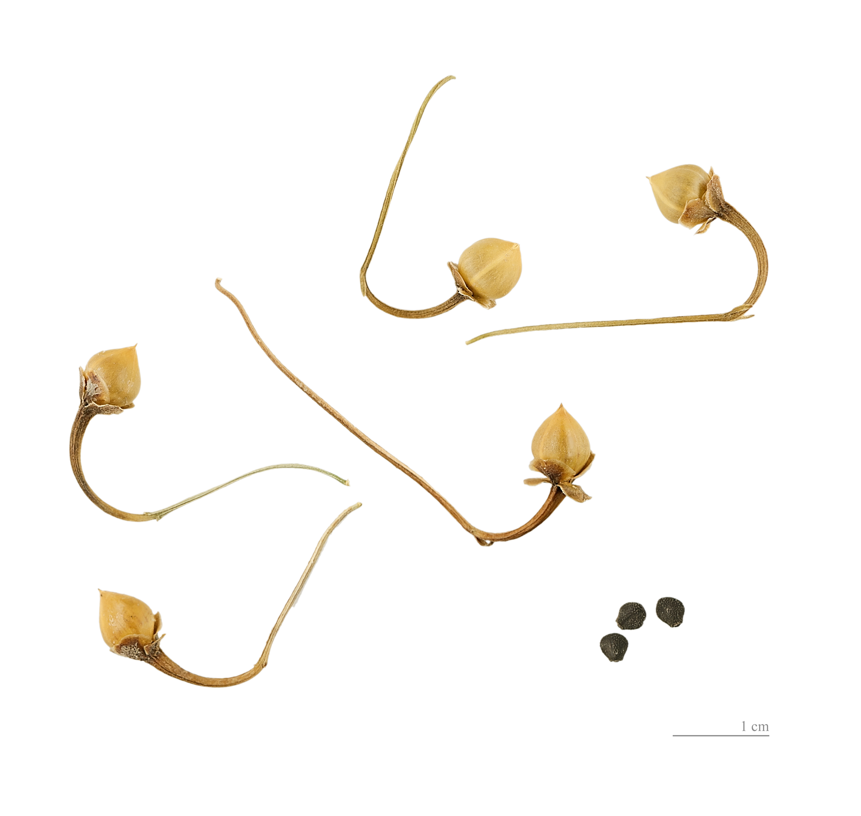 Field Bindweed, Capsules and seeds